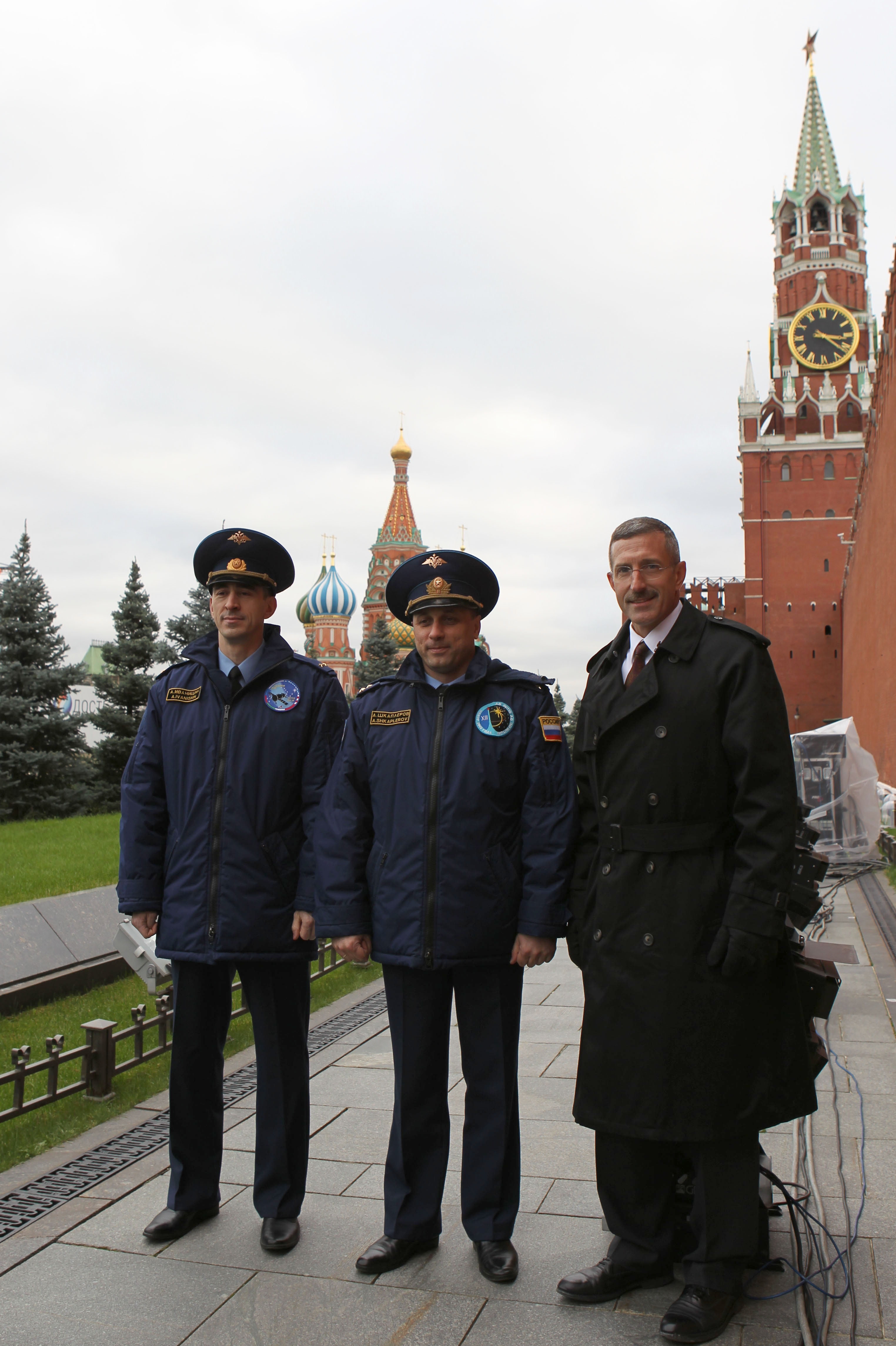 The next residents to be launched to the International Space Station pose for pictures at the Kremlin Wall in Red Square in Moscow Oct. 24, 2011. They are, from left to right, Russian cosmonauts Anatoly Ivanishin, flight engineer, and Anton Shkaplerov, Soyuz commander; and NASA astronaut Dan Burbank, Expedition 30 commander. The three had just conducted the traditional laying of flowers at the Kremlin Wall. They are scheduled to launch in their Soyuz TMA-22 spacecraft from the Baikonur Cosmodrome in Kazakhstan Nov. 14.